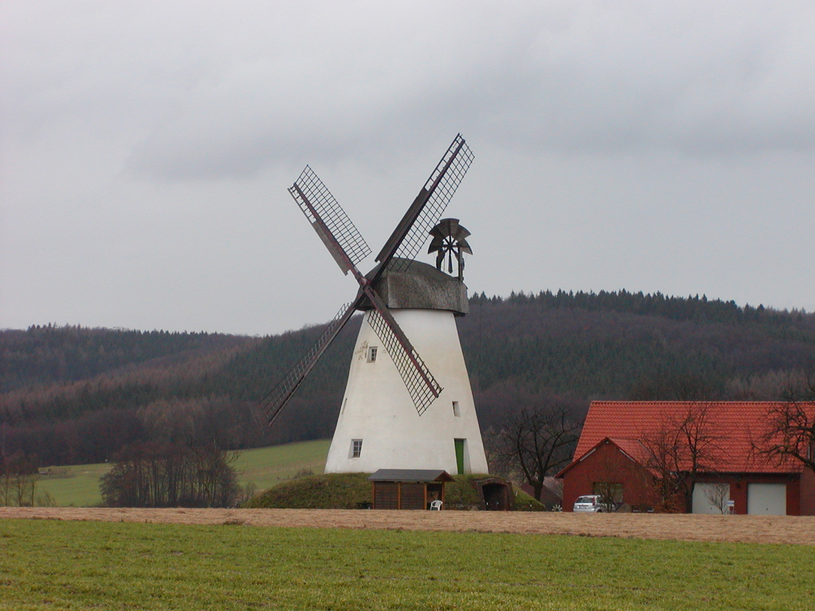 Windmill in Hüllhorst, Minden-Lübbecke, North Rhine-Westphalia, Germany.